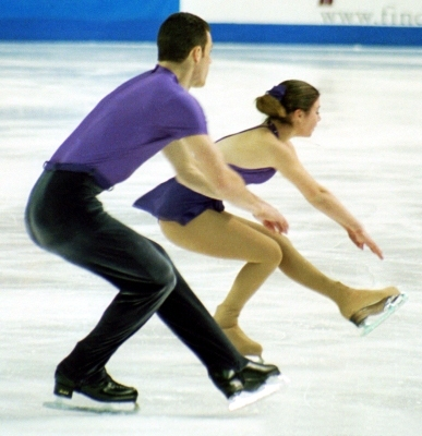 Johanna Purdy and Kevin Maguire perform side by side sit spins in their short program at the 2002 Canadian Nationals.